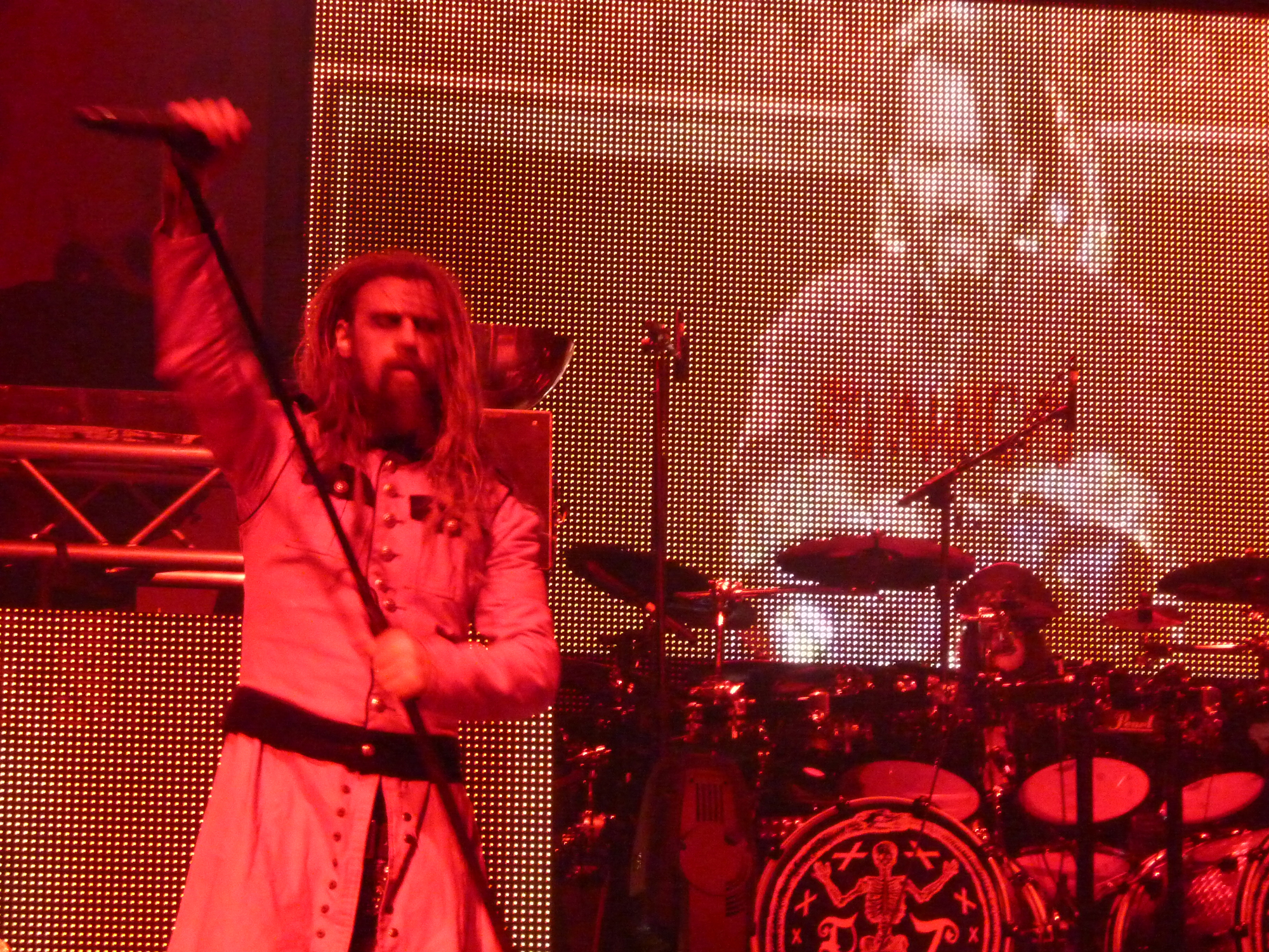 Rob Zombie and Joey Jordison live in Glasgow 2011.